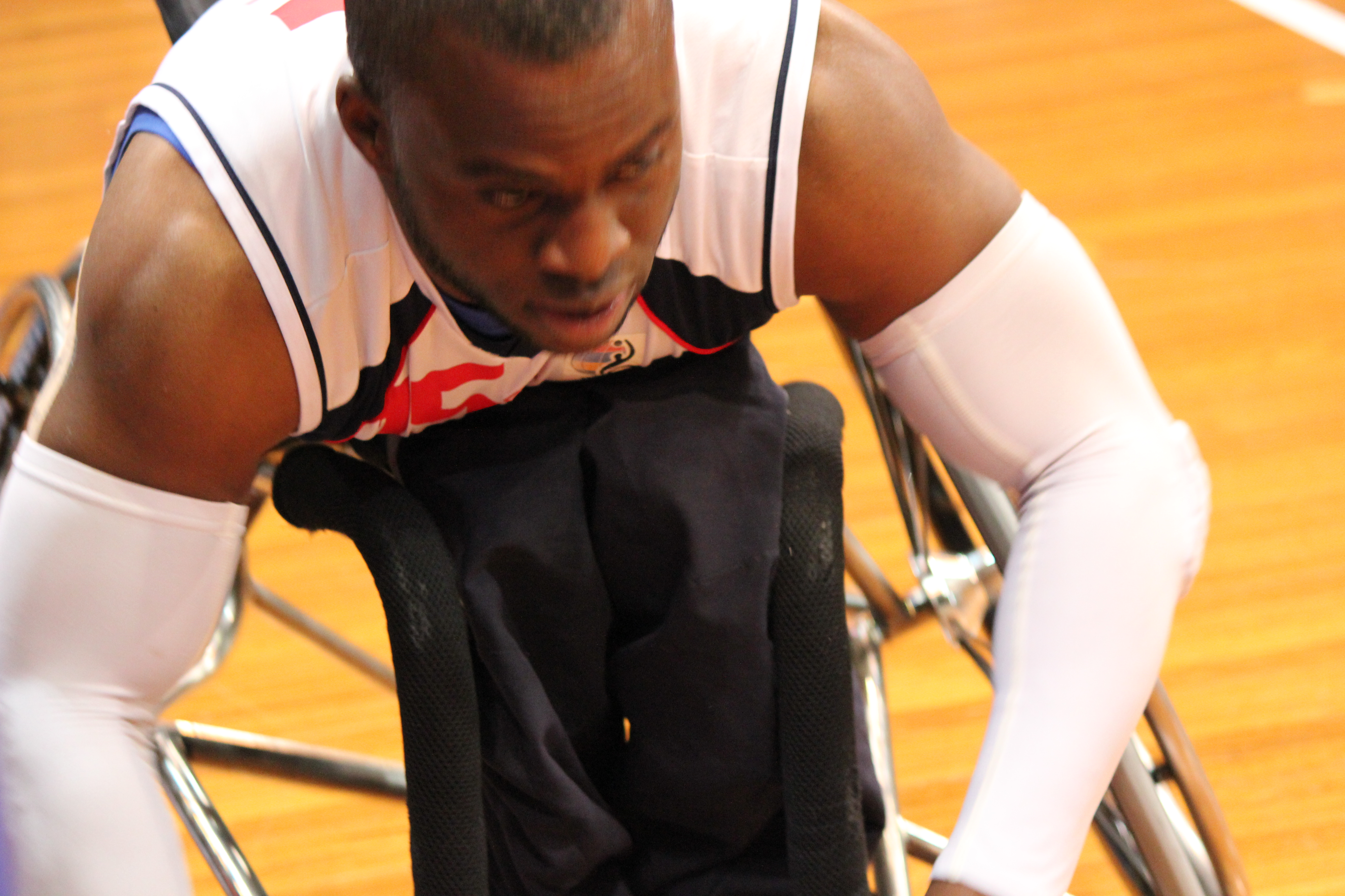 Great Britain vs Australia men's national wheelchair basketball team at Gliders & Rollers World Challenge on 21 July 2012. Ade Oregembe for Great Britain .